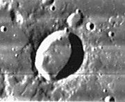 Clausius lunar crater - Lunar Orbiter IV image iv 148 h3